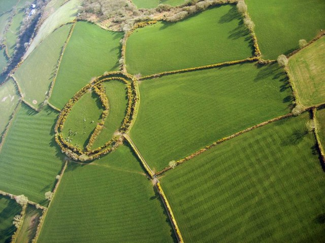 Castell Mawr, Pembrokeshire An Iron Age, promontory hill fort, using the steep natural slopes as part of the defensive circuit. It is a multivallate fort, with three lines of ditch on the NE and SE sides. More information is available at Aerial photo for paramotor.